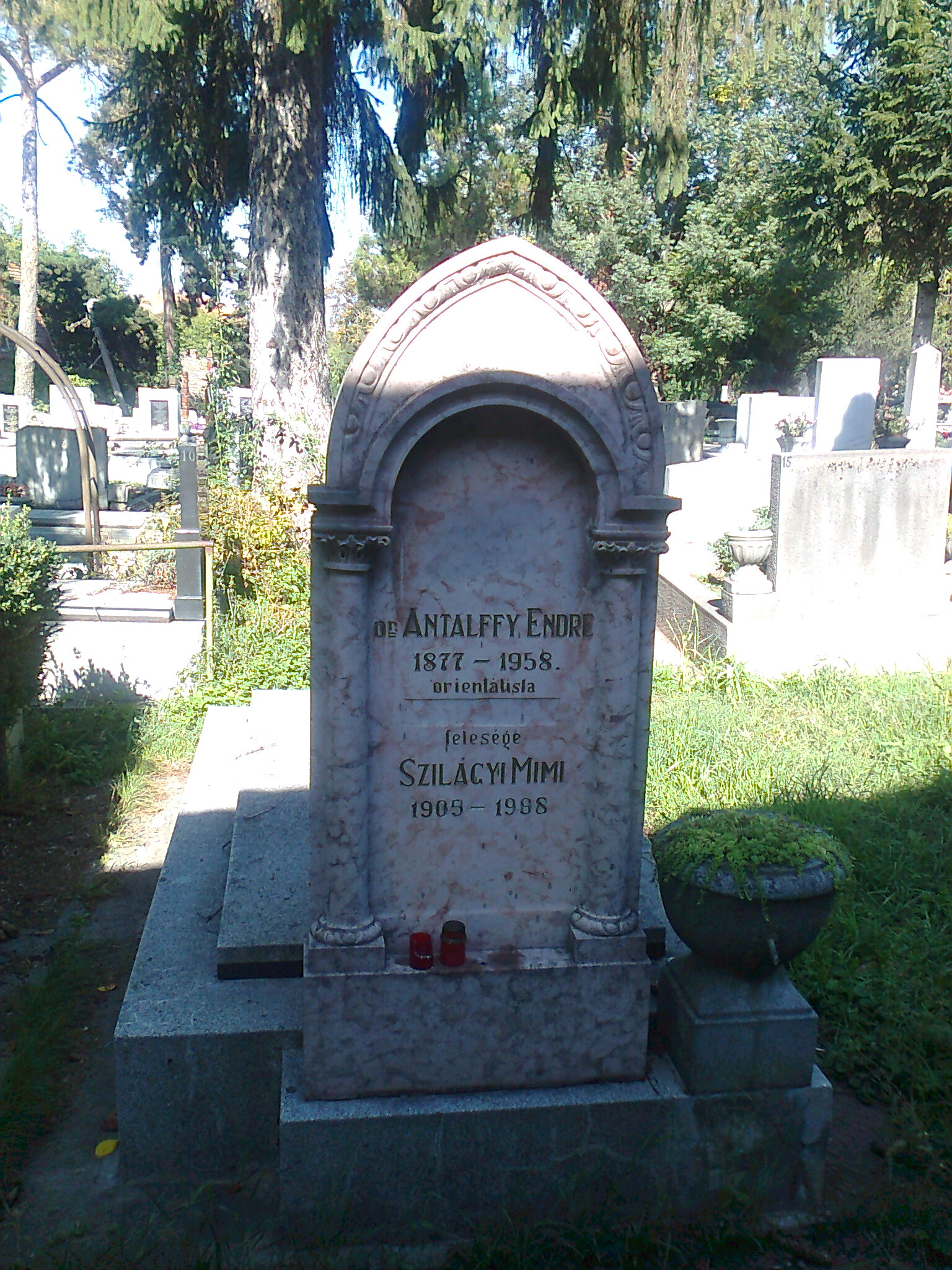 Tomb of the orientalist Antalffy Endre in Reformed Cemetery in Tg. Mures